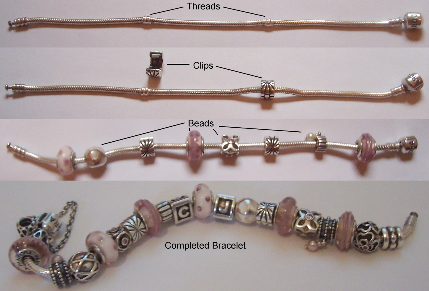 Illustration of how a Pandora bracelet works